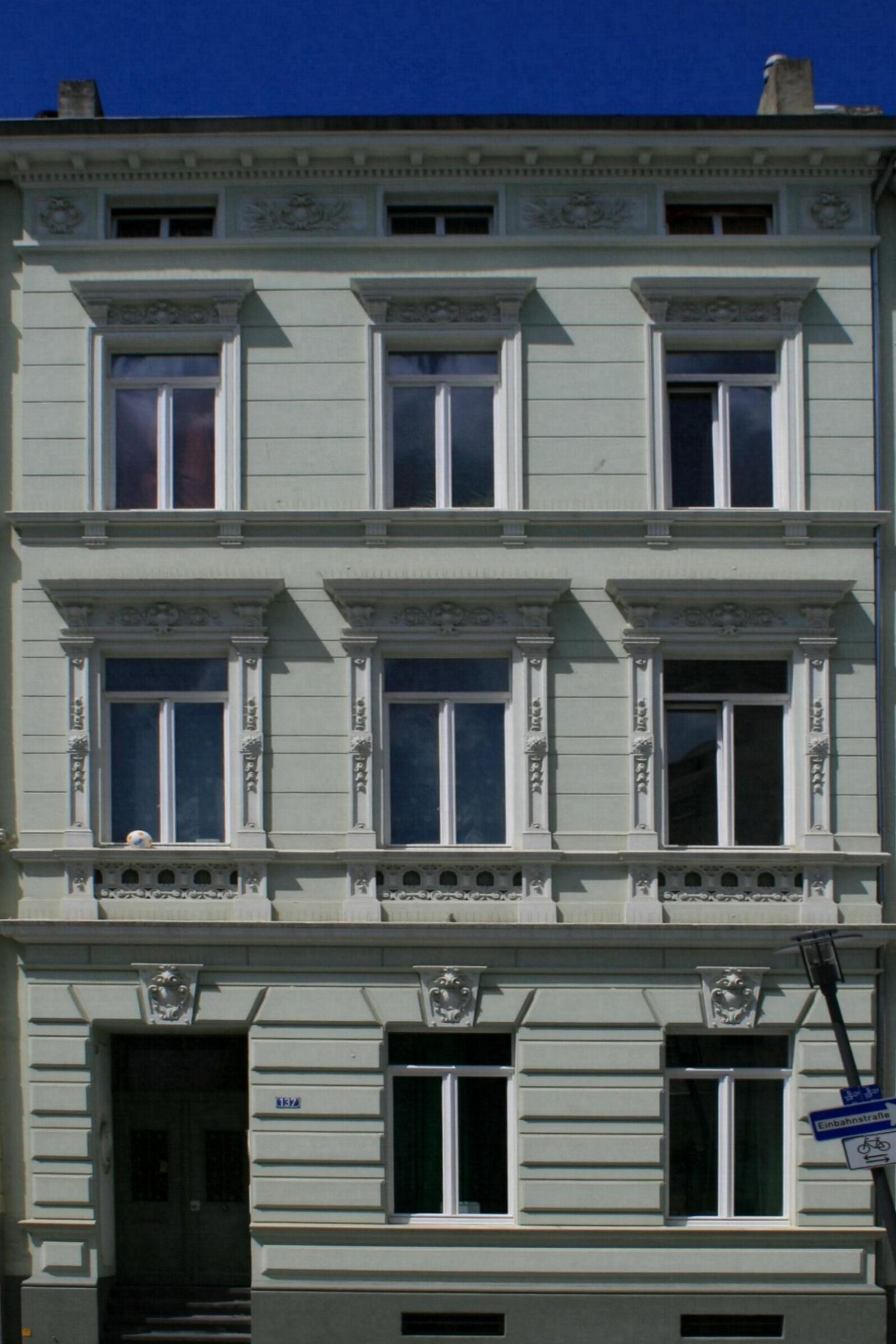 Cultural heritage monument No. E 003 in Mönchengladbach